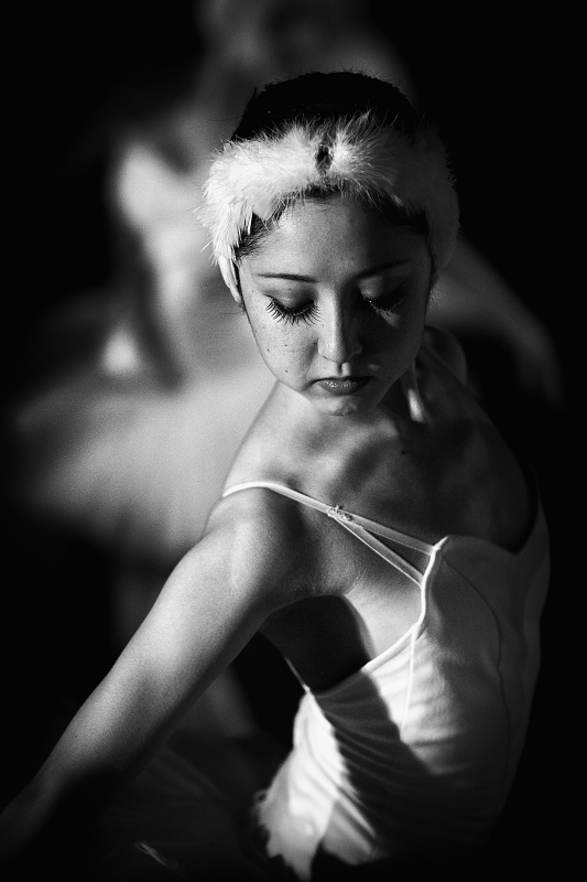 Tamara Černá Personality rights warningAlthough this work is freely licensed or in the public domain, the person(s) shown may have rights that legally restrict certain re-uses unless those depicted consent to such uses. In these cases, a model release or other evidence of consent could protect you from infringement claims.